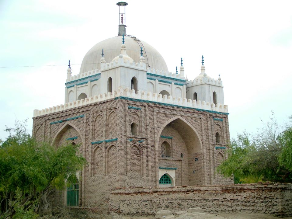 Shrine Of Shakhi Allah Yar